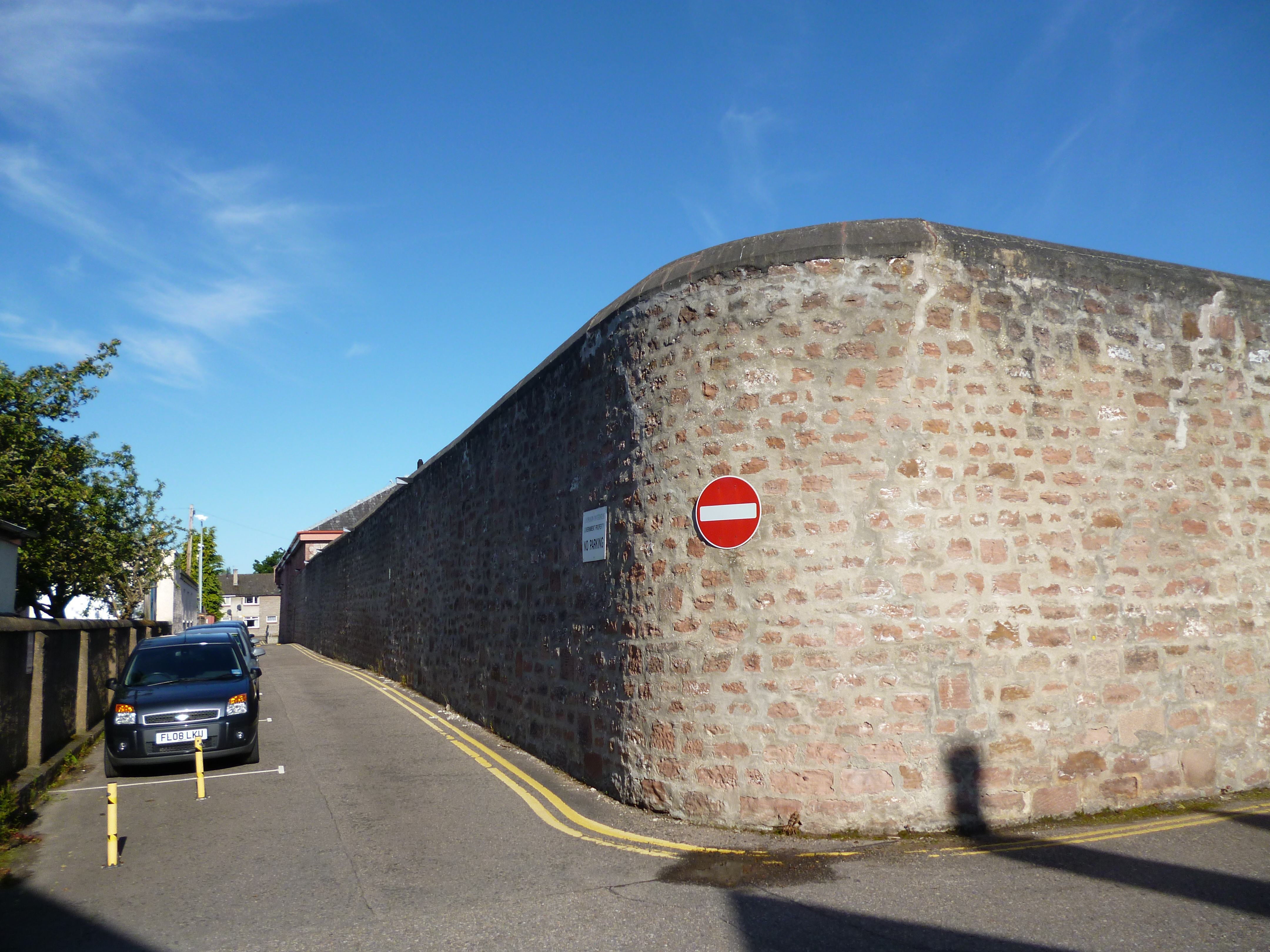 Inverness Prison. Built in 1902, this prison was never provided with an ornate entrance such as those which graced many Victorian prisons. The very plain entrance is down the lane to the left, but must be approached from the opposite direction. In Inverness, Highland council area, Scotland.